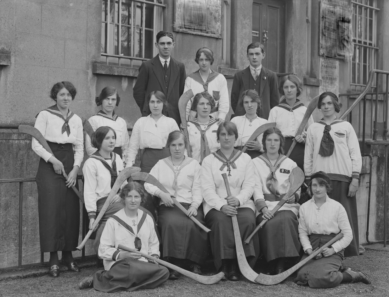 Camogie team at rear of Waterford Courthouse, Waterford City, Ireland, 17 October 1915. Description From NLI Commons: Here is Miss Hookey of Bank Lane, Waterford with her Camogie team. This photo had been up here for over a year without us knowing which was Miss Hookey, until cjkavana identified the young woman sitting on the ground (left) as Monica Hookey of "1 Bank Lane, Waterford. She died in Welling Kent in 1977. She was my grand Aunt." From the 1911 census, we knew that Miss Hookey was either Maud, Monica or Ann who were 19, 17 and 14 respectively in 1911 - hence 23, 21 and 18 by the time this photo was taken, but it is really fantastic to have positive identification of Miss Monica Hookey by a family member. We were initially unsure of the location in Waterford, and what was interesting was that the photographer/developer has scratched out all the signs and posters on the wall in the background. Even at high res, only the word FARMERS is still legible on one of the posters... However, thanks to dec1798, we now know that this photo was taken at the back of Waterford Court House . Date: Sunday, 17 October 1915 NLI Ref.: P_WP_2627